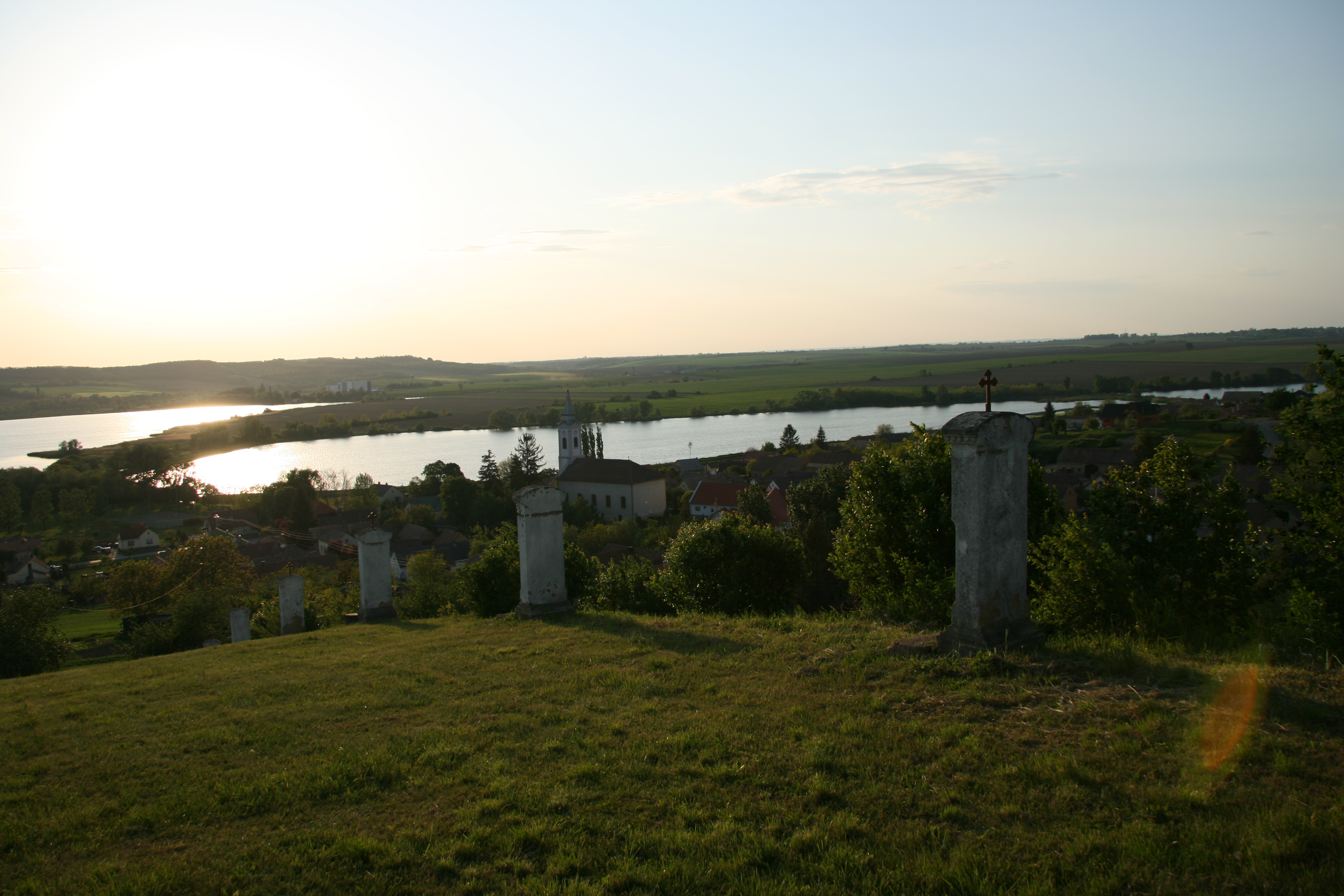 The village Alsómocsolád in Hungary